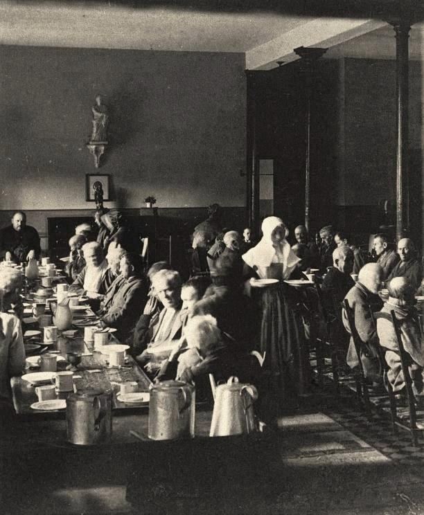 Photograph, Old Men's Refectory, Grey Nunnery, Montreal, QC, about 1890, James George Parks. Silver salts on paper mounted on card - Albumen process - 7 x 14 cm